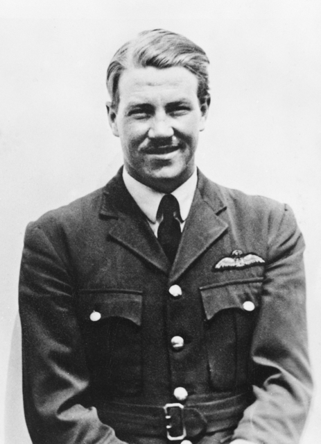 Australian War Memorial image P01171.001. Royal Australian Air Force pilot Paterson Clarence Hughes in 1940. Hughes was the top-scoring Australian pilot in the Battle of Britain and was killed in action on 7 September 1940.